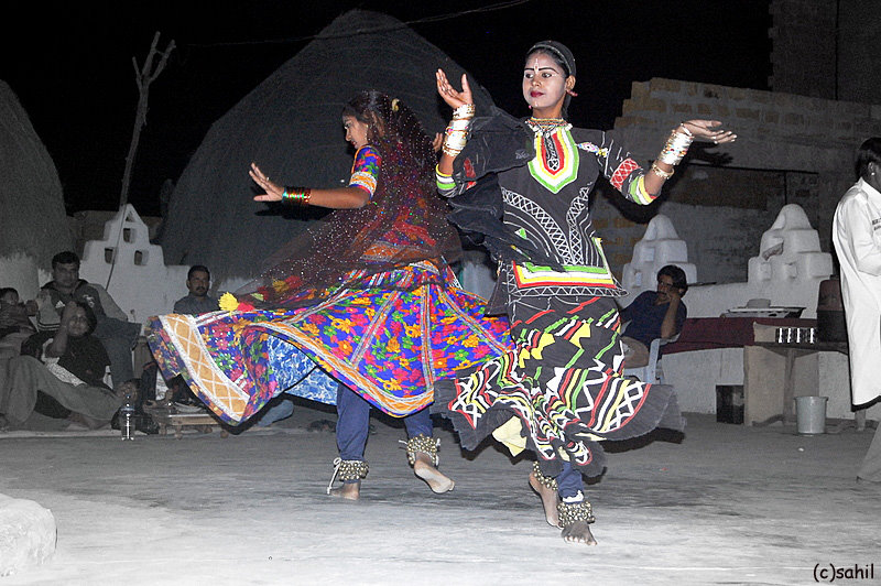 Rajasthani folk dance, India